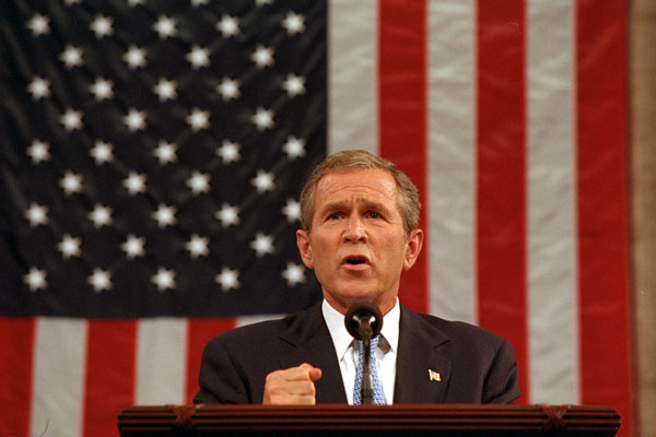 In a historic address to the nation and joint session of Congress Sept. 20, President Bush pledges to defend America's freedom against the fear of terrorism.